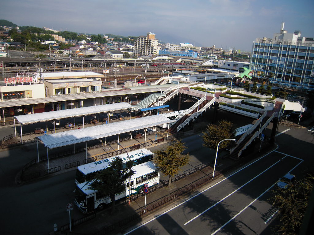 Kuwana Station